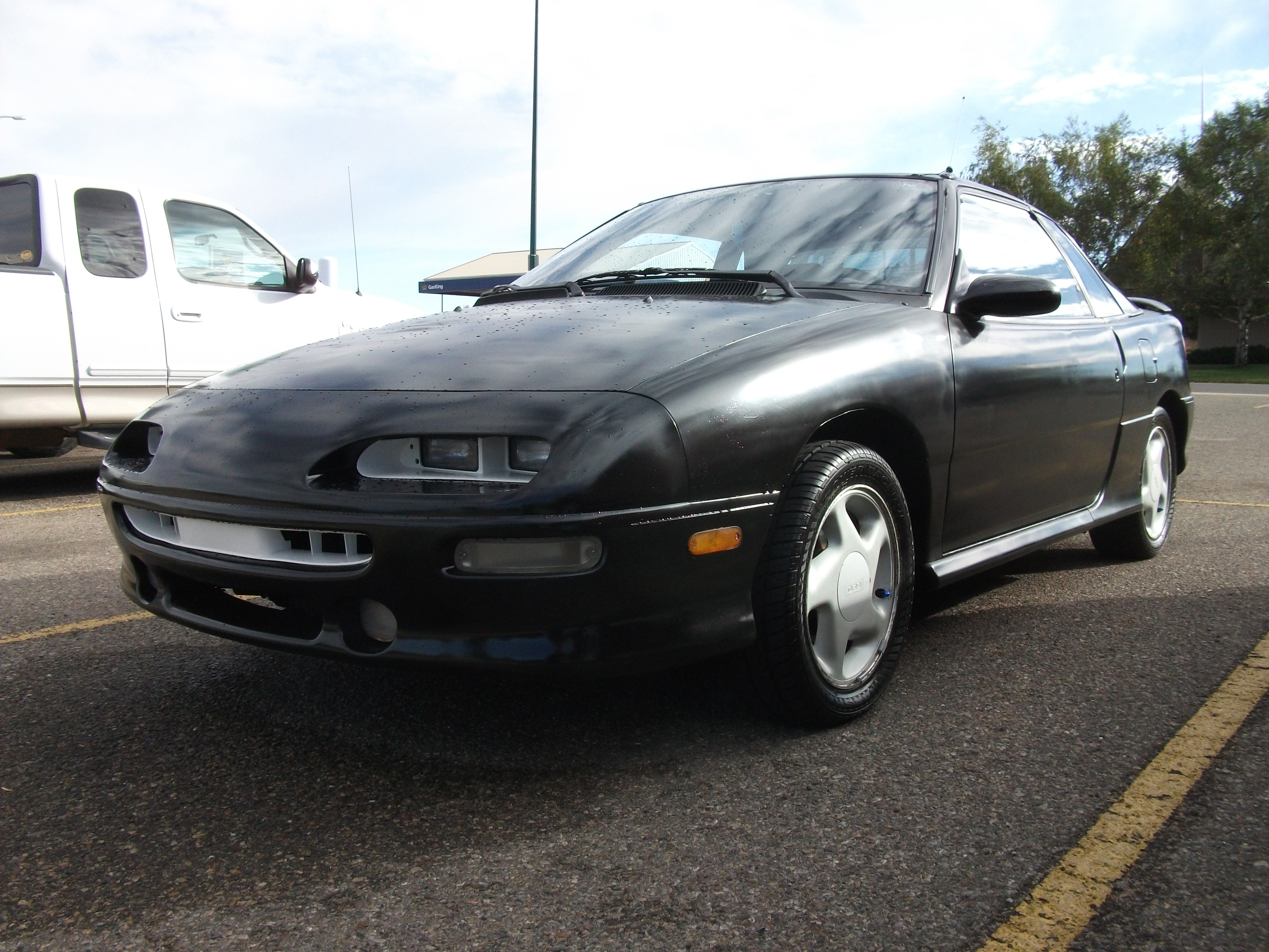 Geo Storm